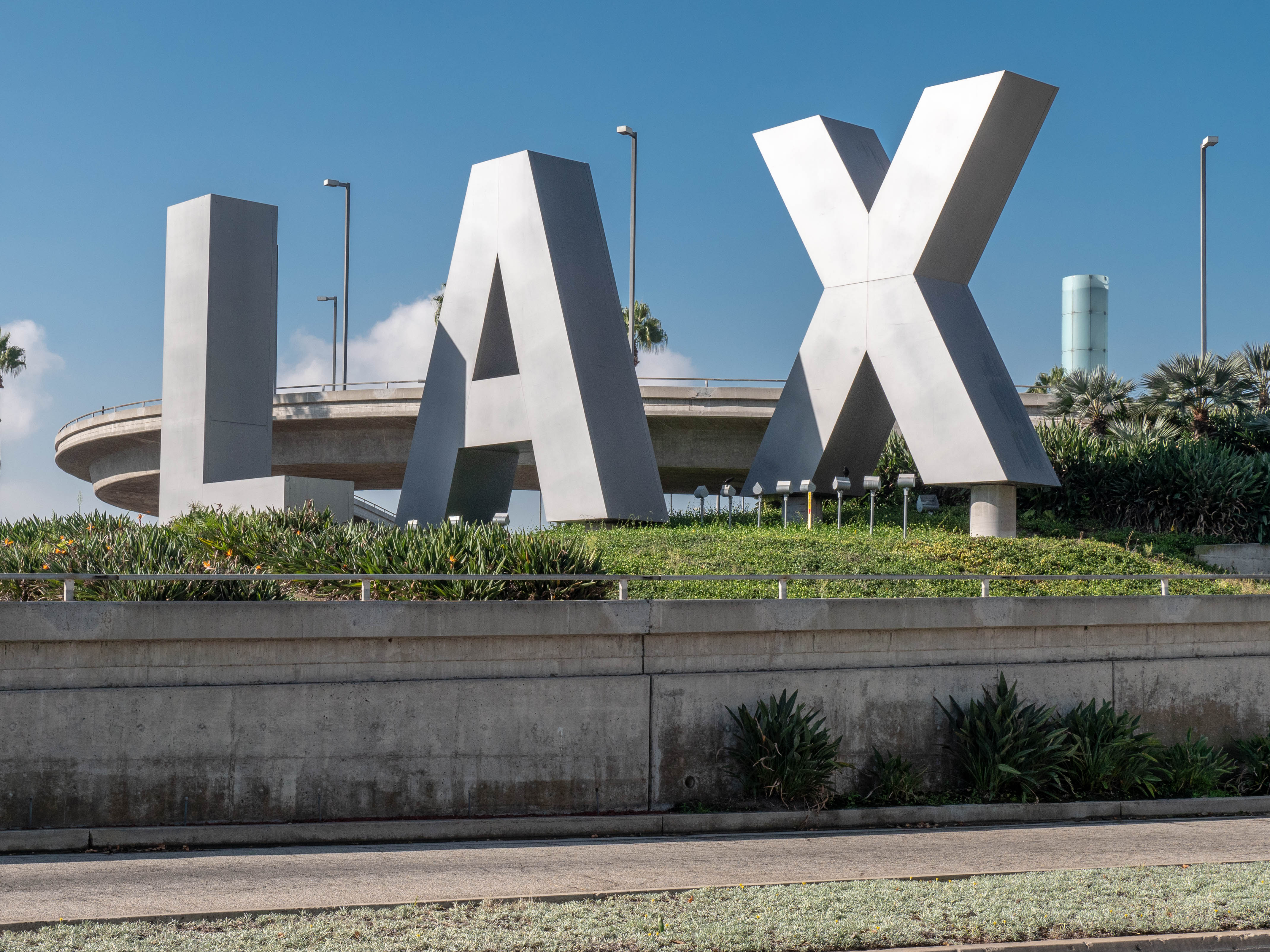 A picture showing the LAX letters welcoming visitors to the Los Angeles Internation airport.